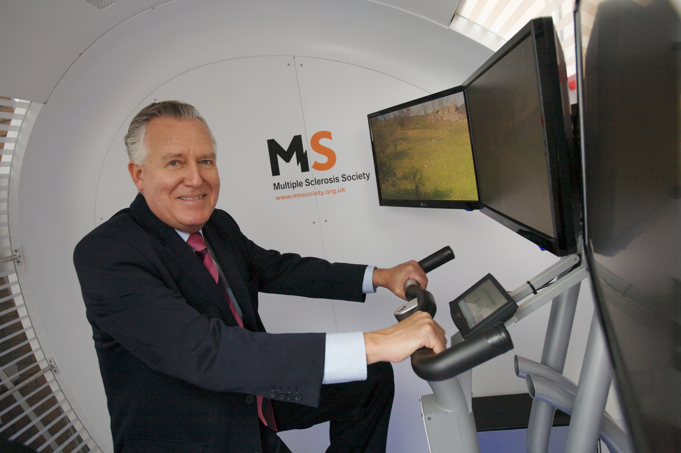 Peter Hain, British politician and Secretary of State for Wales, at the Health Hotel "Health Zone" at The Brighton Centre, Brighton, during the Labour Party Conference 2009.